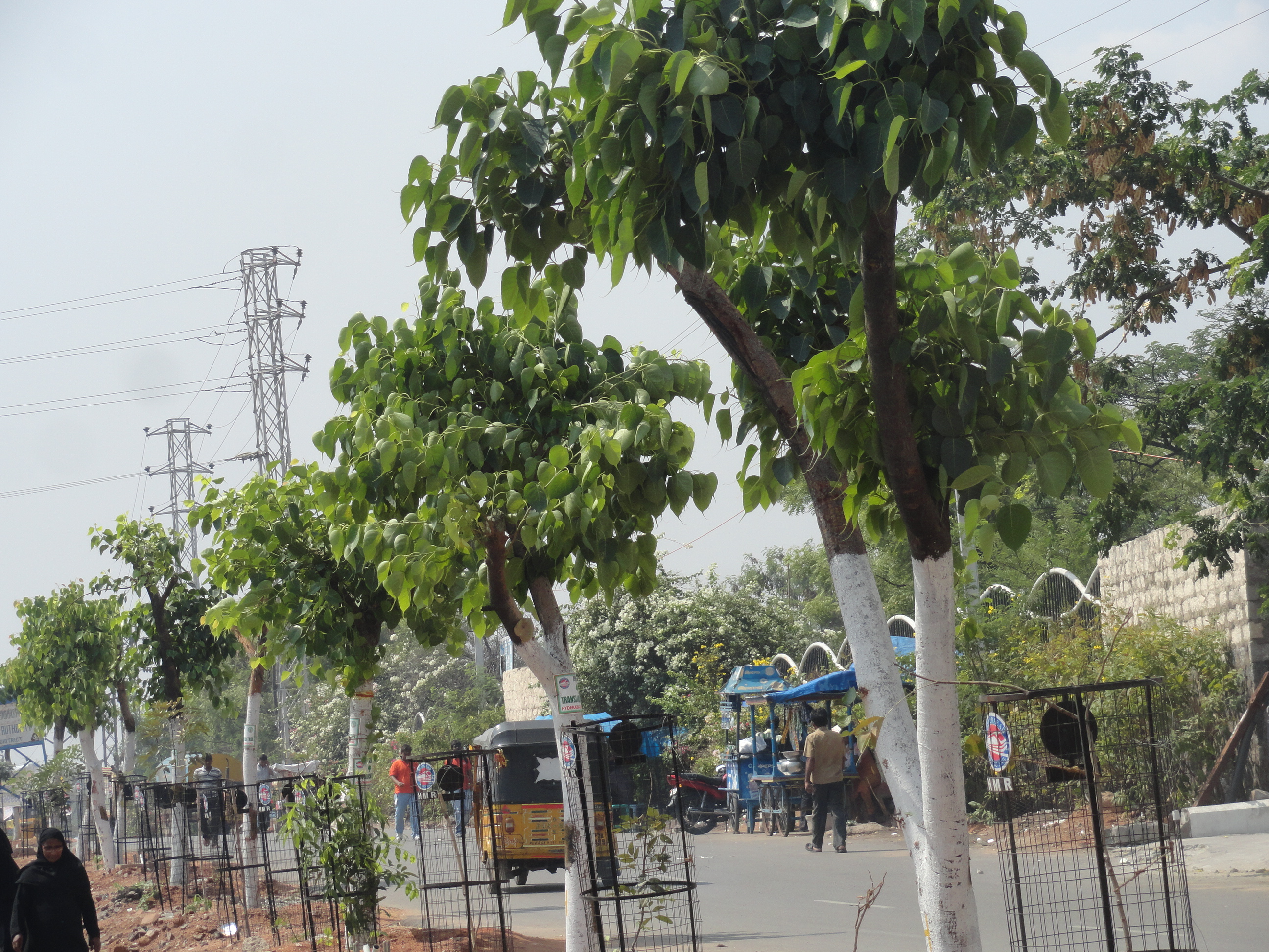 big trees .... tree transplantation